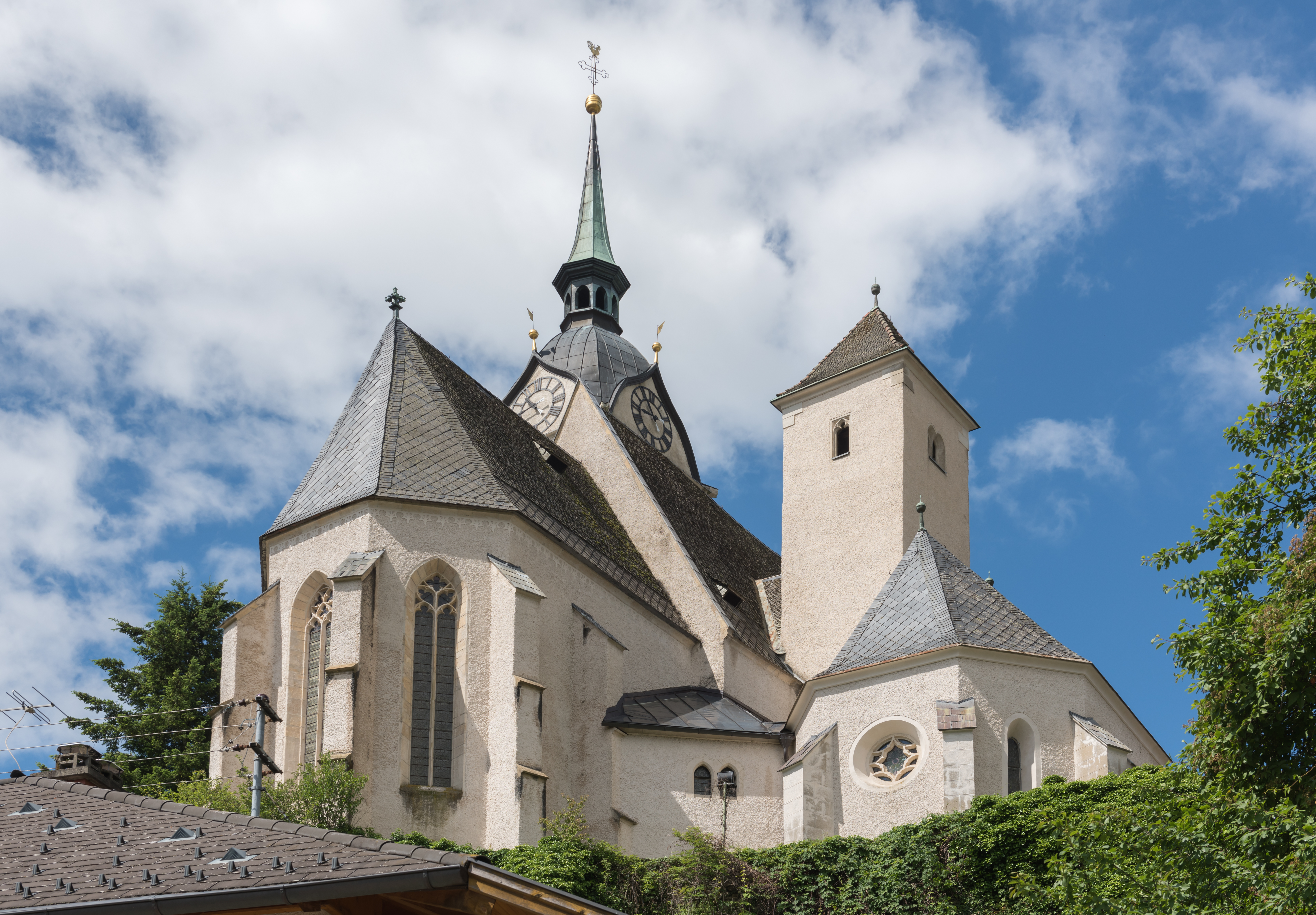 Northeastern view of the parish church Saint Thomas Becket on Schlossplatz, municipality Althofen, district Sankt Veit, Carinthia, Austria, EU